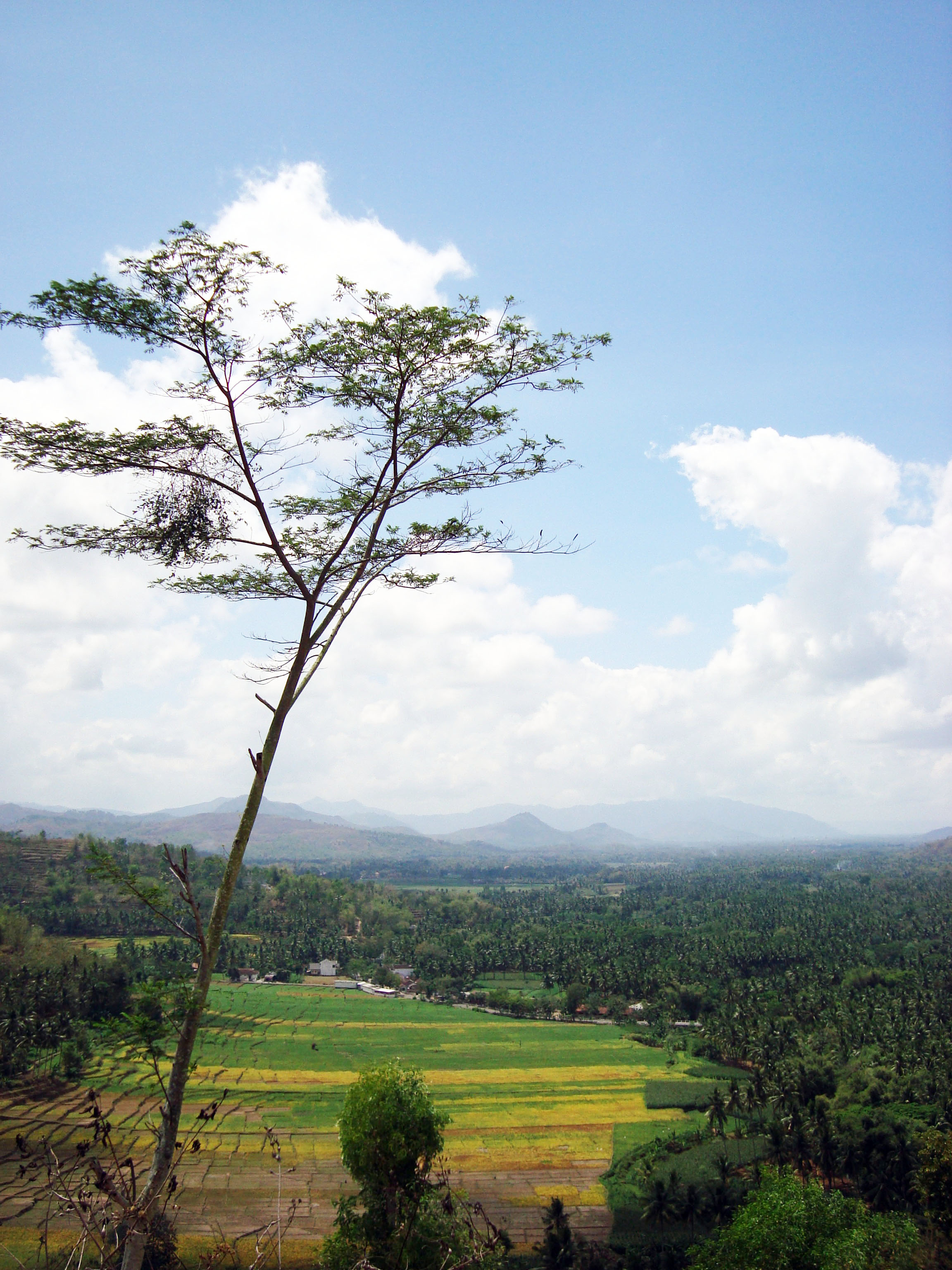 A view over a village in Trenggalek, Indonesia